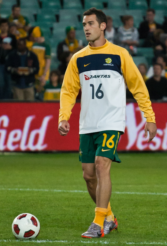 Carl Valeri representing the Australian national football team against Paraguay at the Sydney Football Stadium.